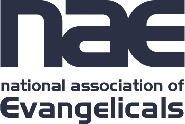 Former National Association of Evangelicals logo